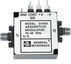 A General Microwave Millimeter Wave (18 to 40 GHz) PIN Diode Attenuator/Modulator.